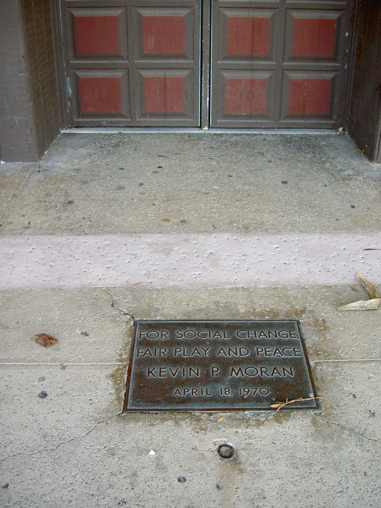 "For social change, fair play and peace. Kevin P. Moran. April 18, 1970." Plaque in front of Embarcadero Hall in Isla Vista, California. A memorial for a student who was killed by police in a riot near this location.